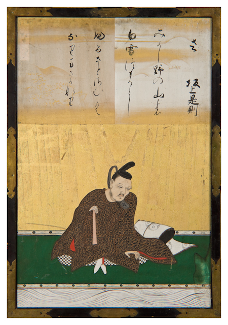 Sanjūrokkasen-gaku (Thirty-six Poetry Immortals framed picture) #21: Sakanoue no Korenori